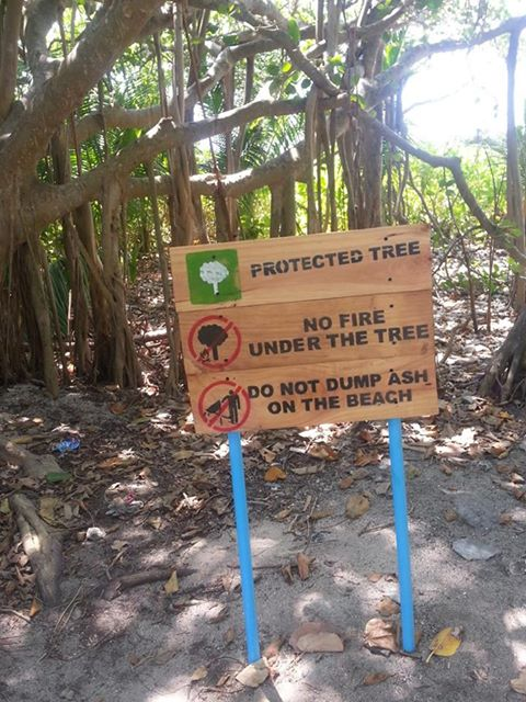 Wooden sign boards placed in Ukulhas for the awareness